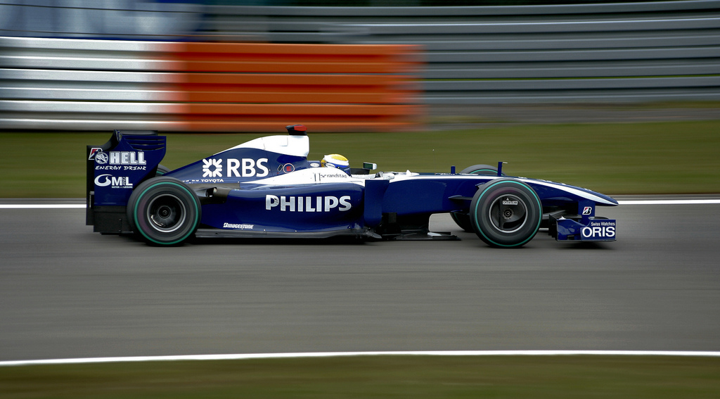 Nico Rosberg driving for WilliamsF1 at the 2009 German Grand Prix.